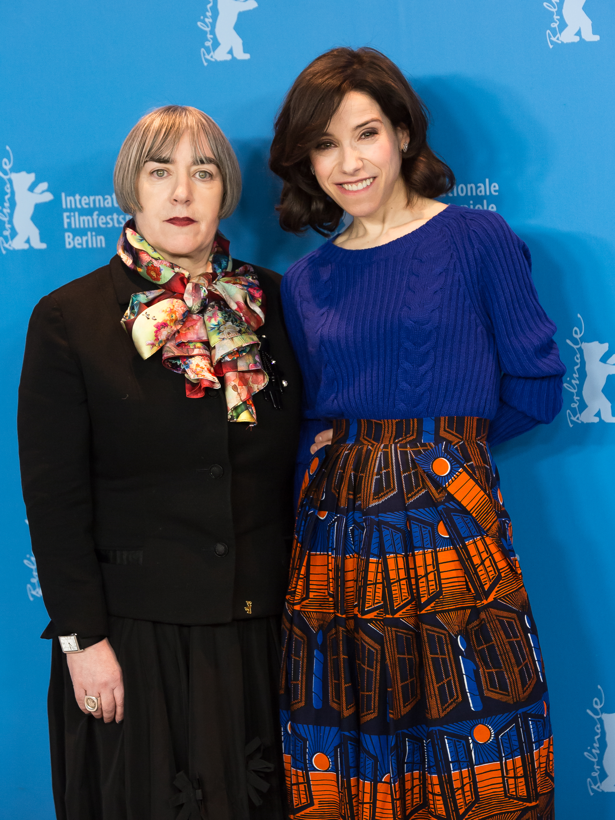 Director Aisling Walsh and actress Sally Hawkins at the presentation of the movie Maudie at the Berlinale 2017